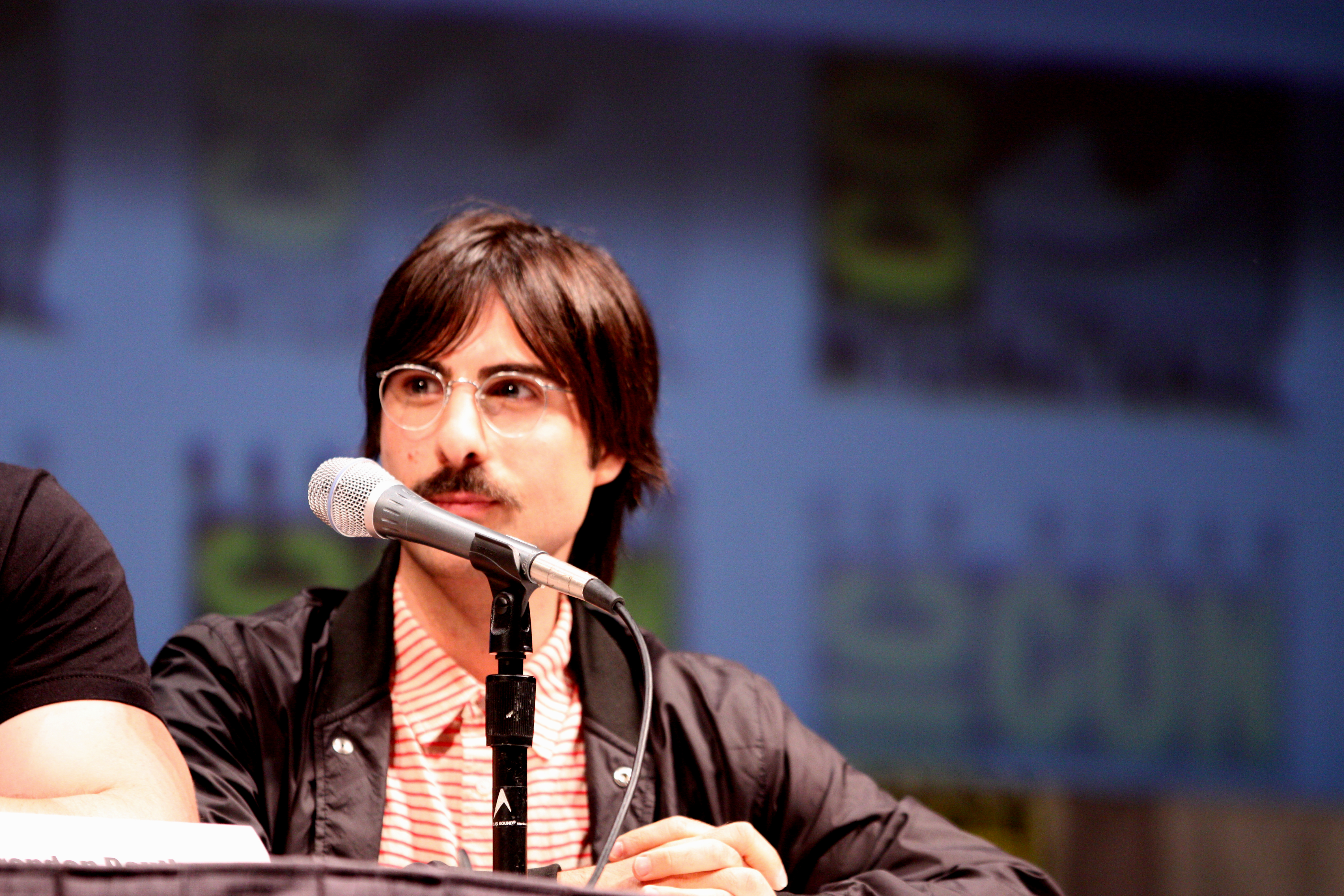 Actor Jason Schwartzman on the Scott Pilgrim vs. the World panel at the 2010 San Diego Comic Con in San Diego, California.